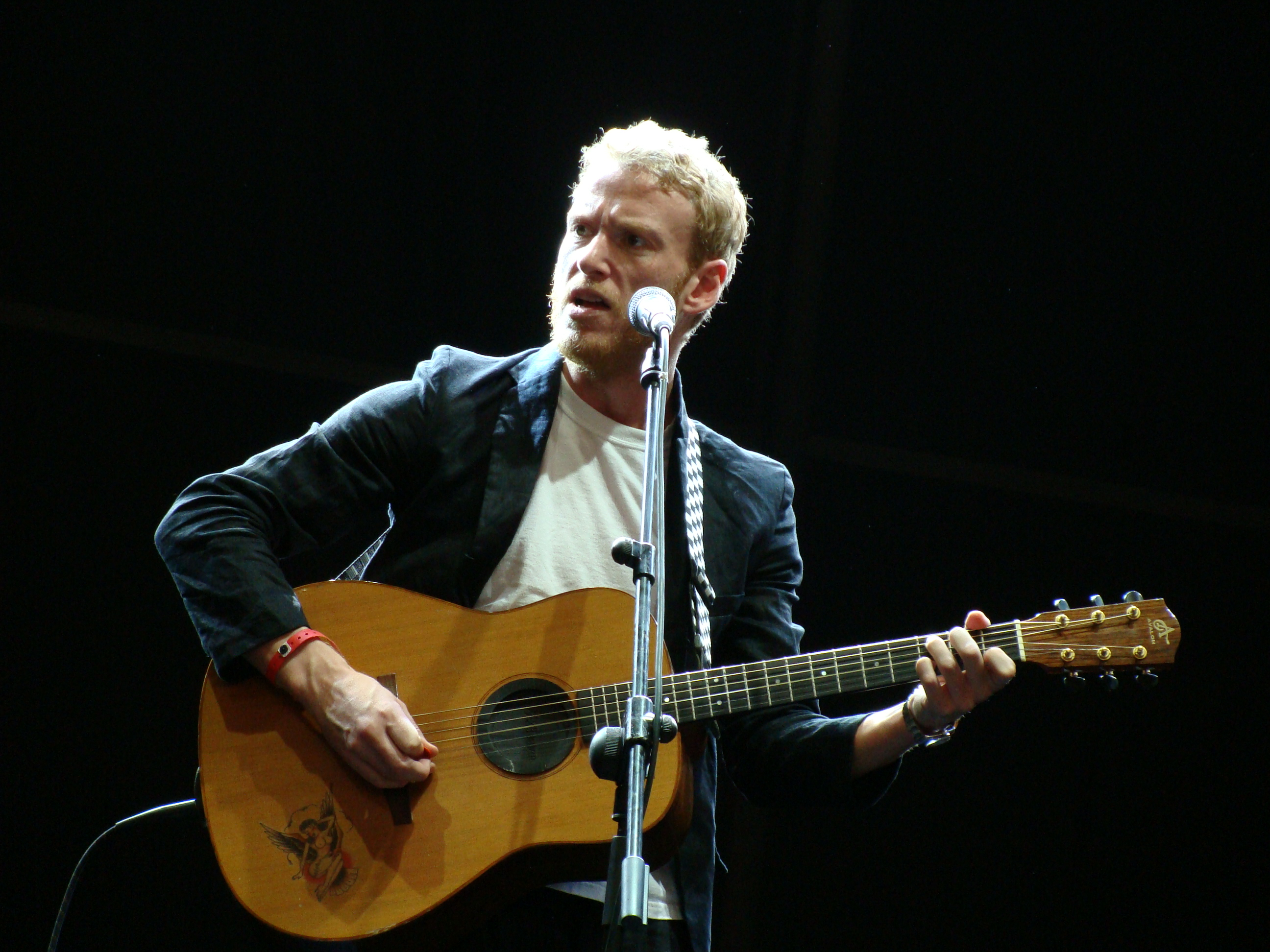 Teddy Thompson performing at the Azkena Rock Festival in Vitoria-Gasteiz, Spain.